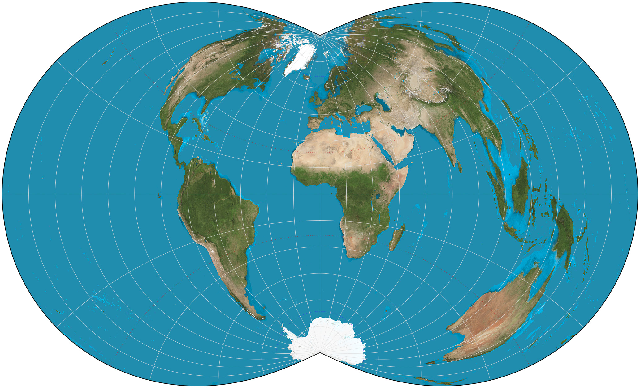 The world on the rectangular polyconic projection, with correct scale along the equator. 15° graticule. Imagery is a derivative of NASA’s Blue Marble summer month composite with oceans lightened to enhance legibility and contrast. Image created with the Geocart map projection software.